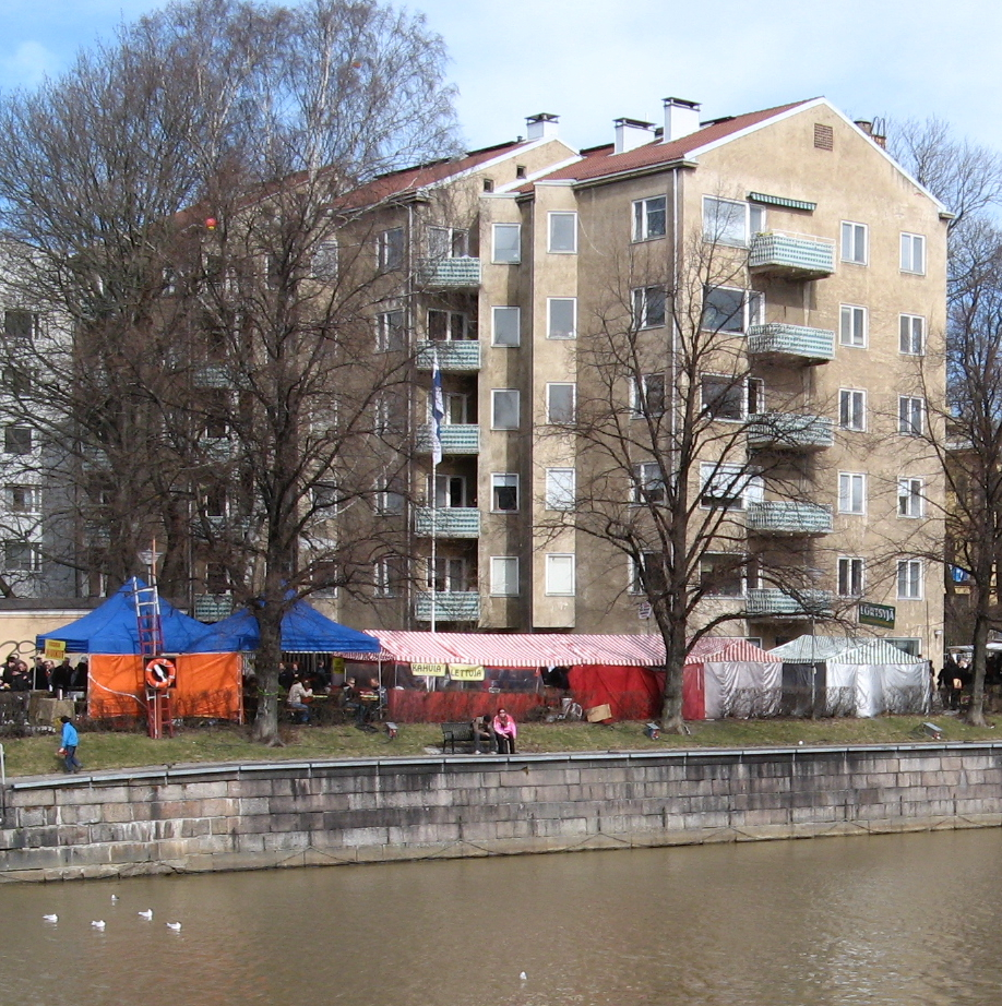 Läntinen Rantakatu 21, Turku, Finland. Completed in 1951, designed by architect Erik Bryggman.